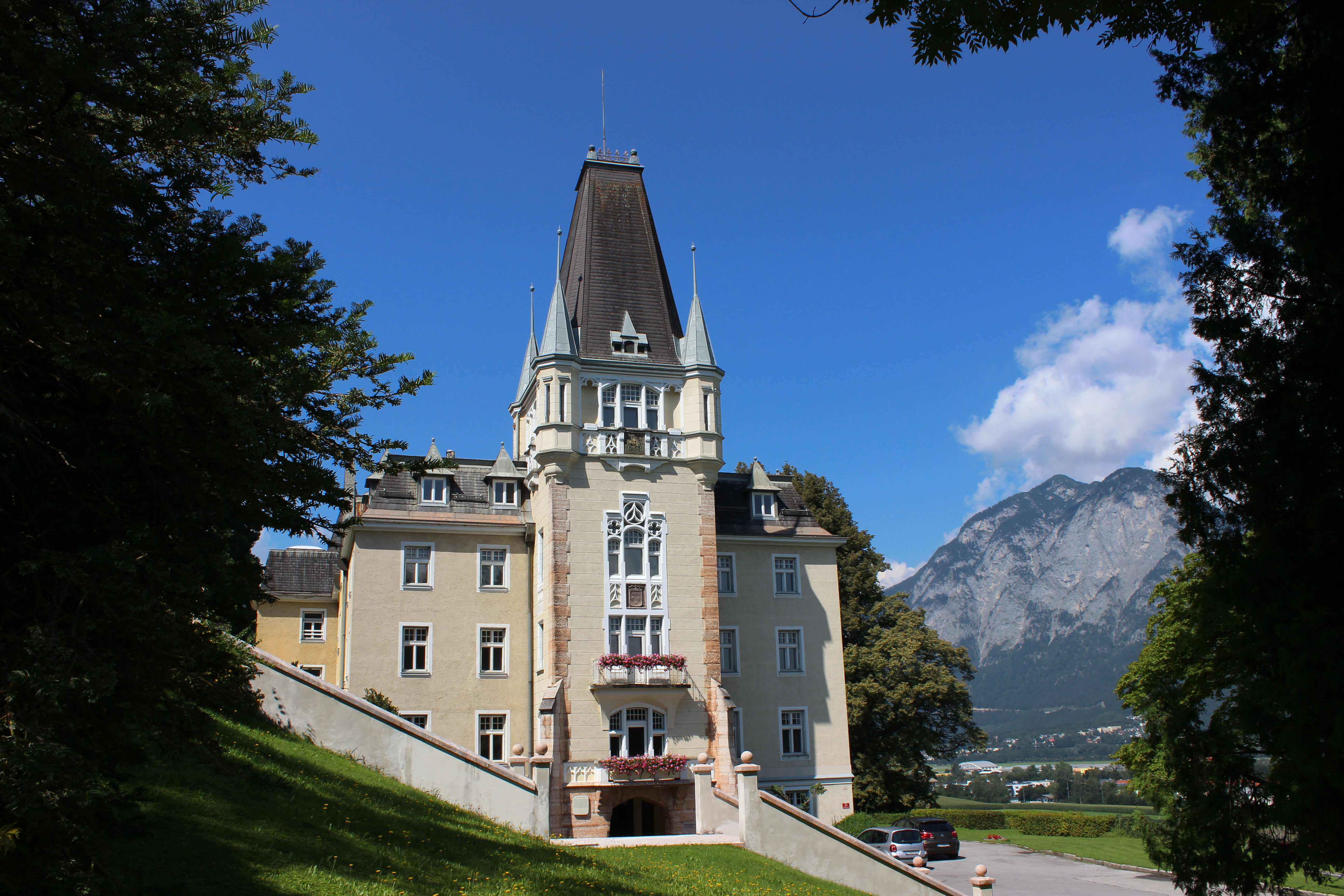 Schloss Mentlberg in Innsbruck.